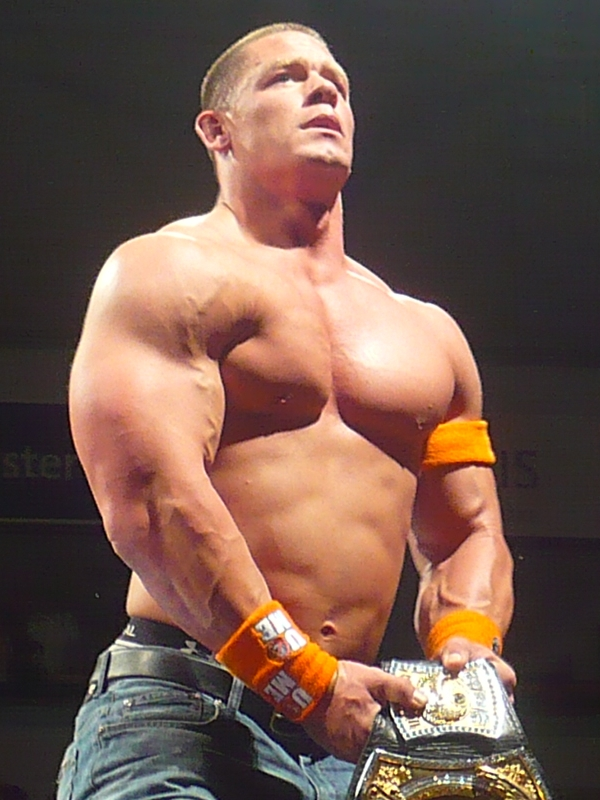 This is John Cena at the RAW Wrestlemania Revenge Tour